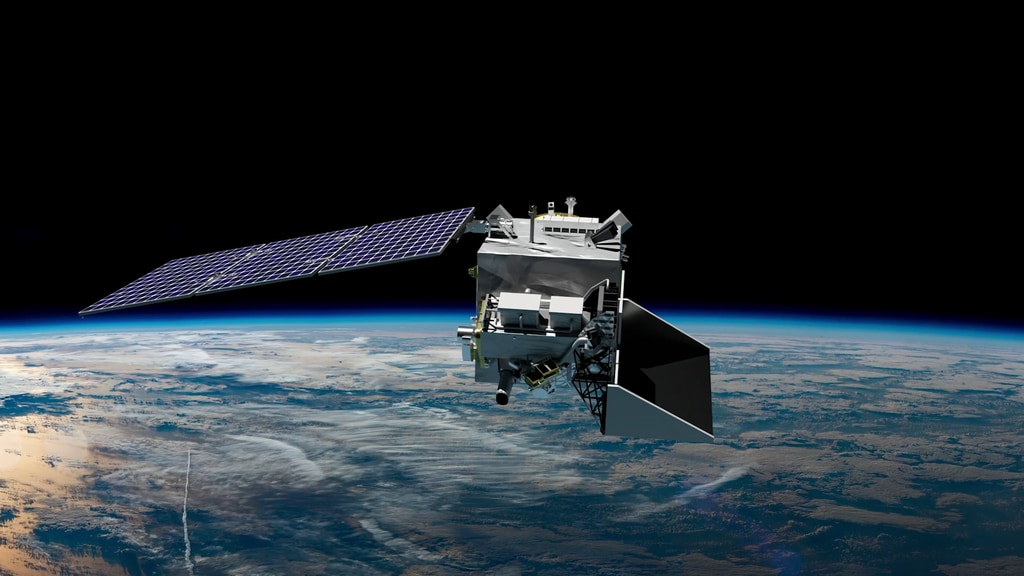 Beauty Shot of PACE Spacecraft